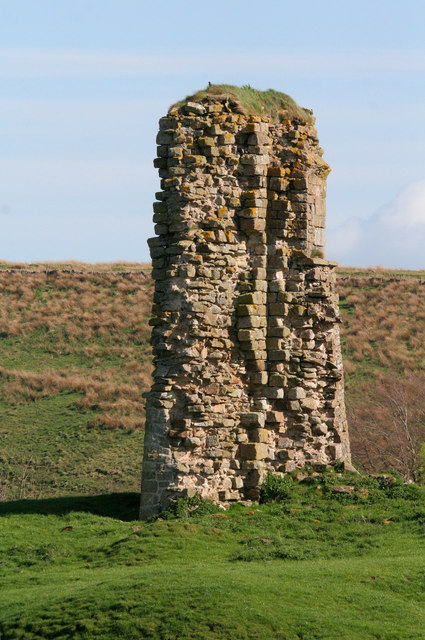 Triermain Castle The remains of Triermain Castle which was probably built around 1340 using stone from Hadrian's Wall.